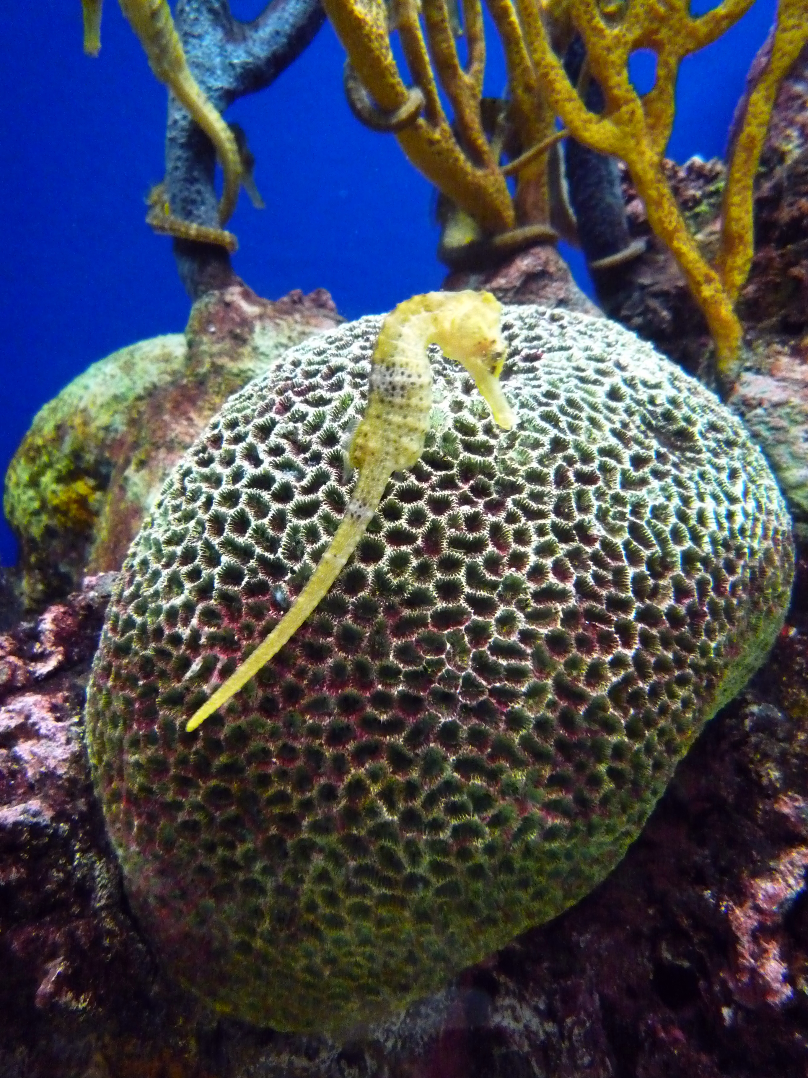 A Long-snouted seahorse (Hippocampus guttulatus) as seen at the Monterey Bay Aquarium.